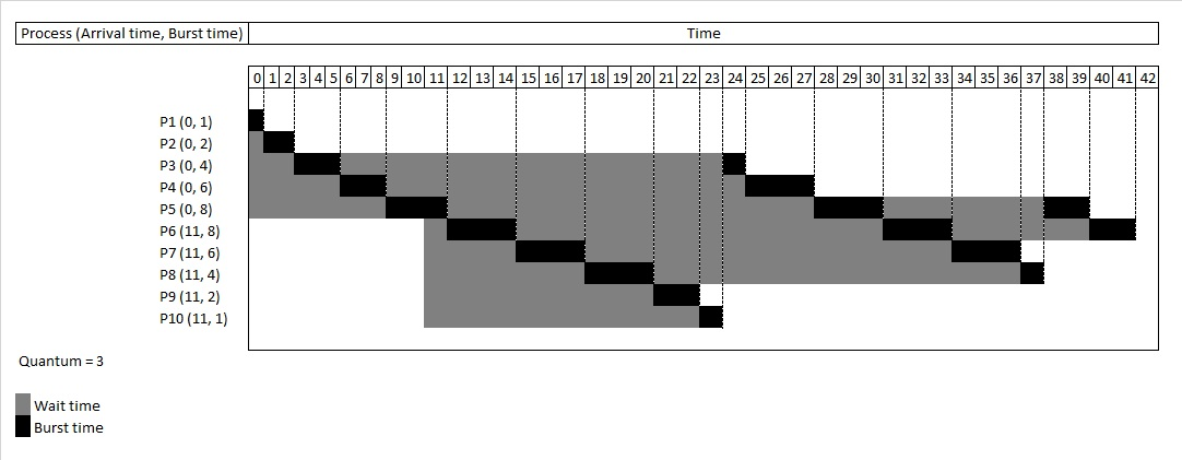 This is an example of a Round Robin Scheduling algorithm